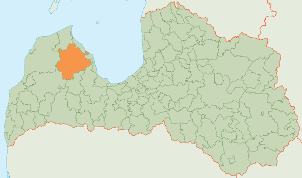 Map of Talsi municipality, Latvia